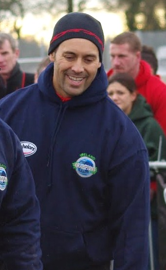 Carl Waitoa - a strength athlete from New Zealand.